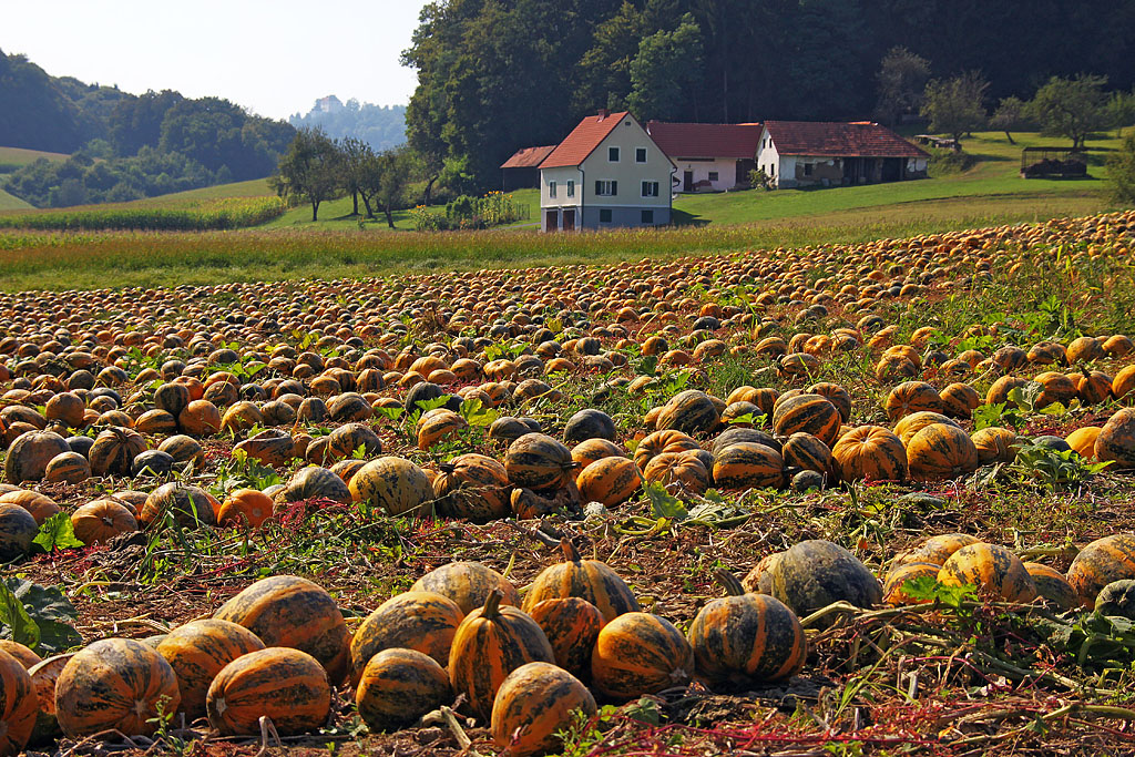 Gutendorf is a small village in Kapfenstein district.